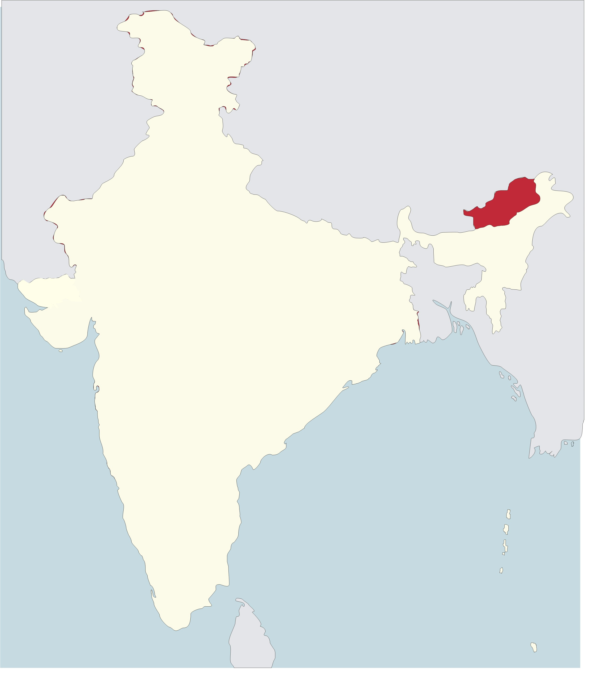 Map of the Roman Catholic Diocese of Itanagar in India